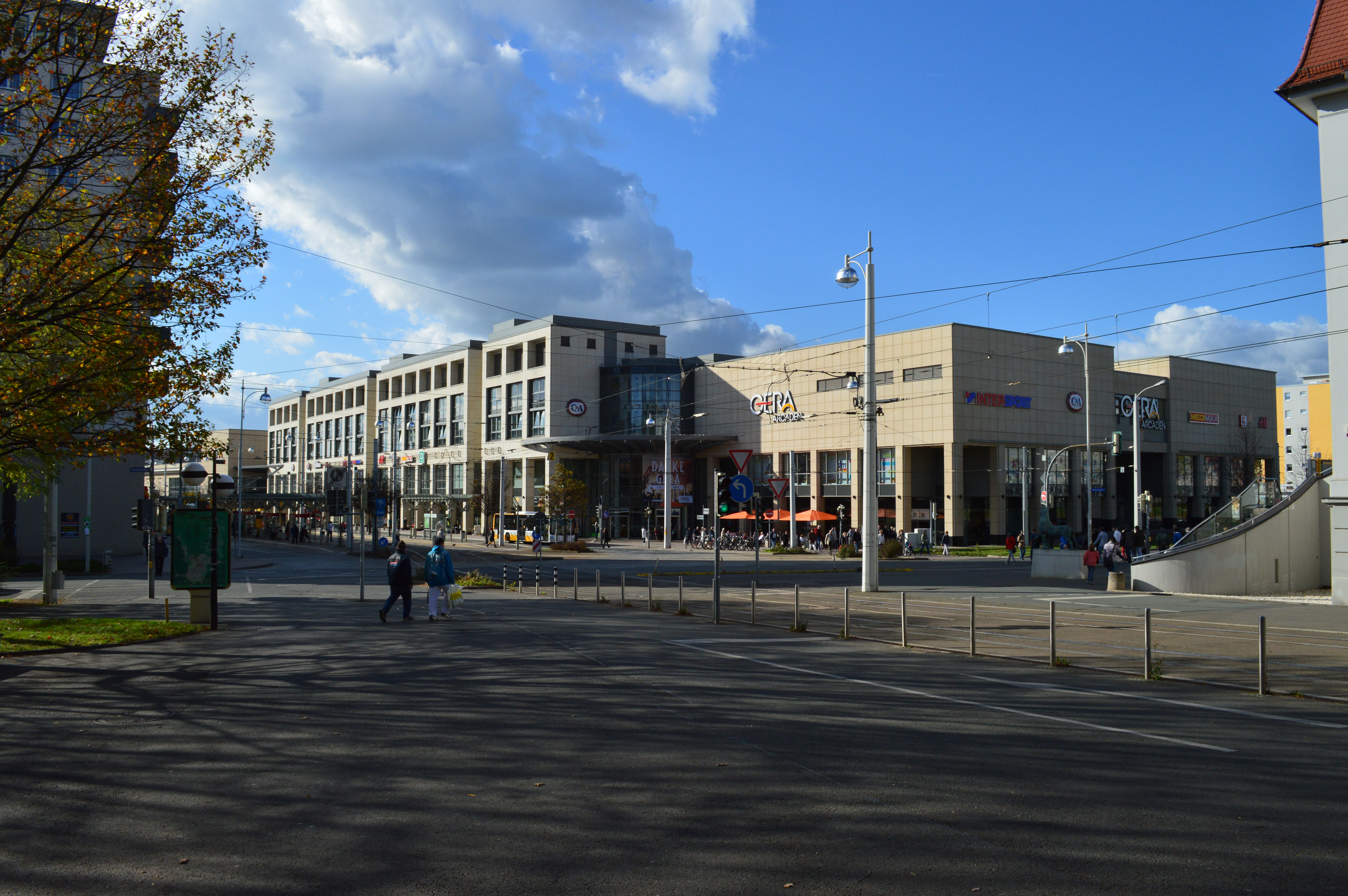 Gera Arcaden shopping mall at Heinrichstraße in Gera, Germany, in October 2013